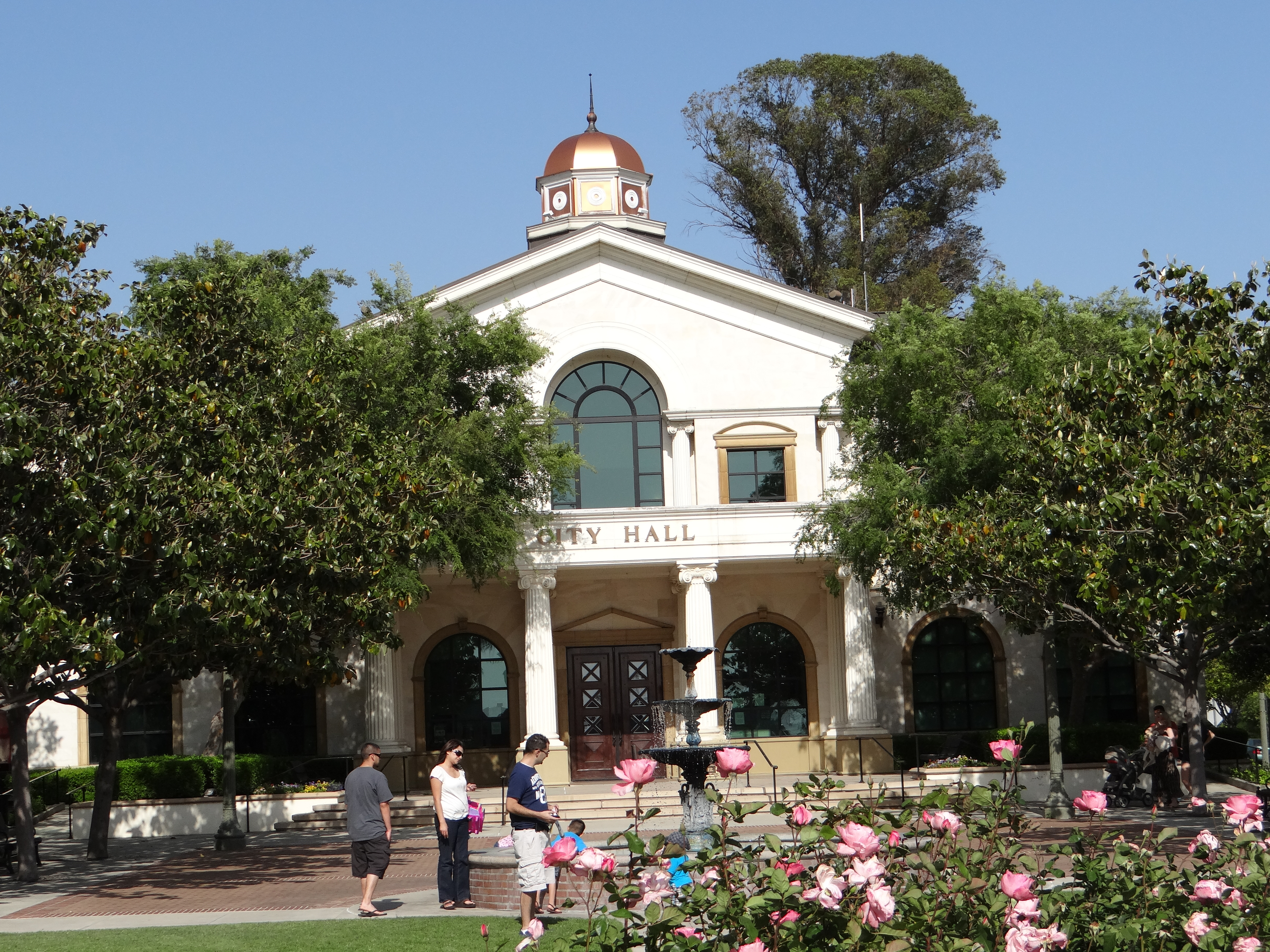 The Fillmore City Hall — in Fillmore, Ventura County, California.